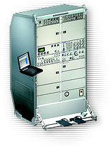 European Physiology Modules in Columbus-Modul